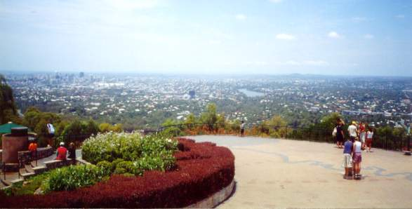 Mt Coot-tha Lookout ( this photograph was taken by Figaro )